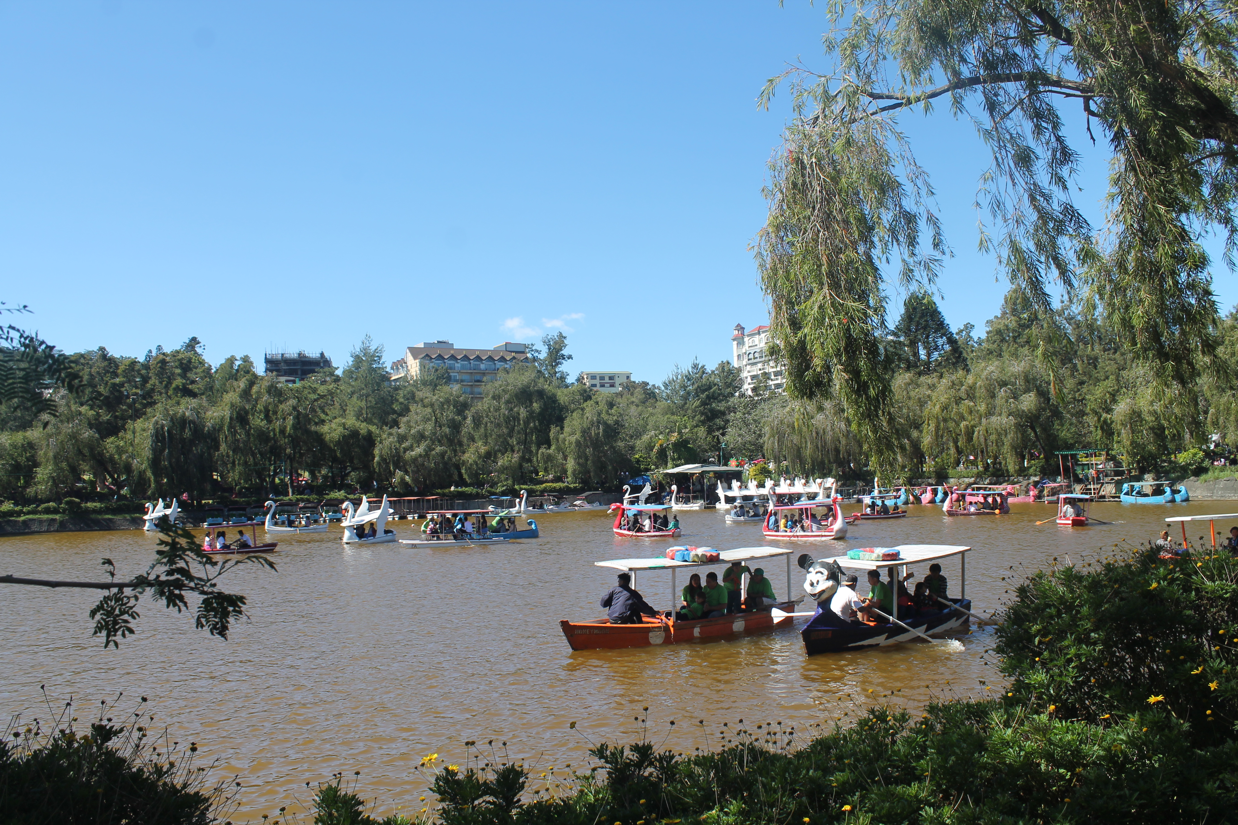 Central lagoon of Burnham Park in Baguio.